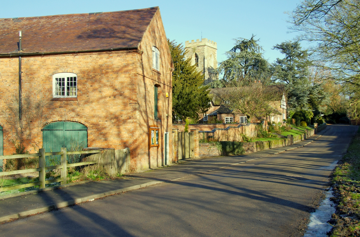 Looking east up Bosworth Road. Shenton church is left of the road, the hall lies opposite it to the right. Behind this viewpoint an attractive Victorian bridge crosses the Sence Brook. A former farm stands below the church.